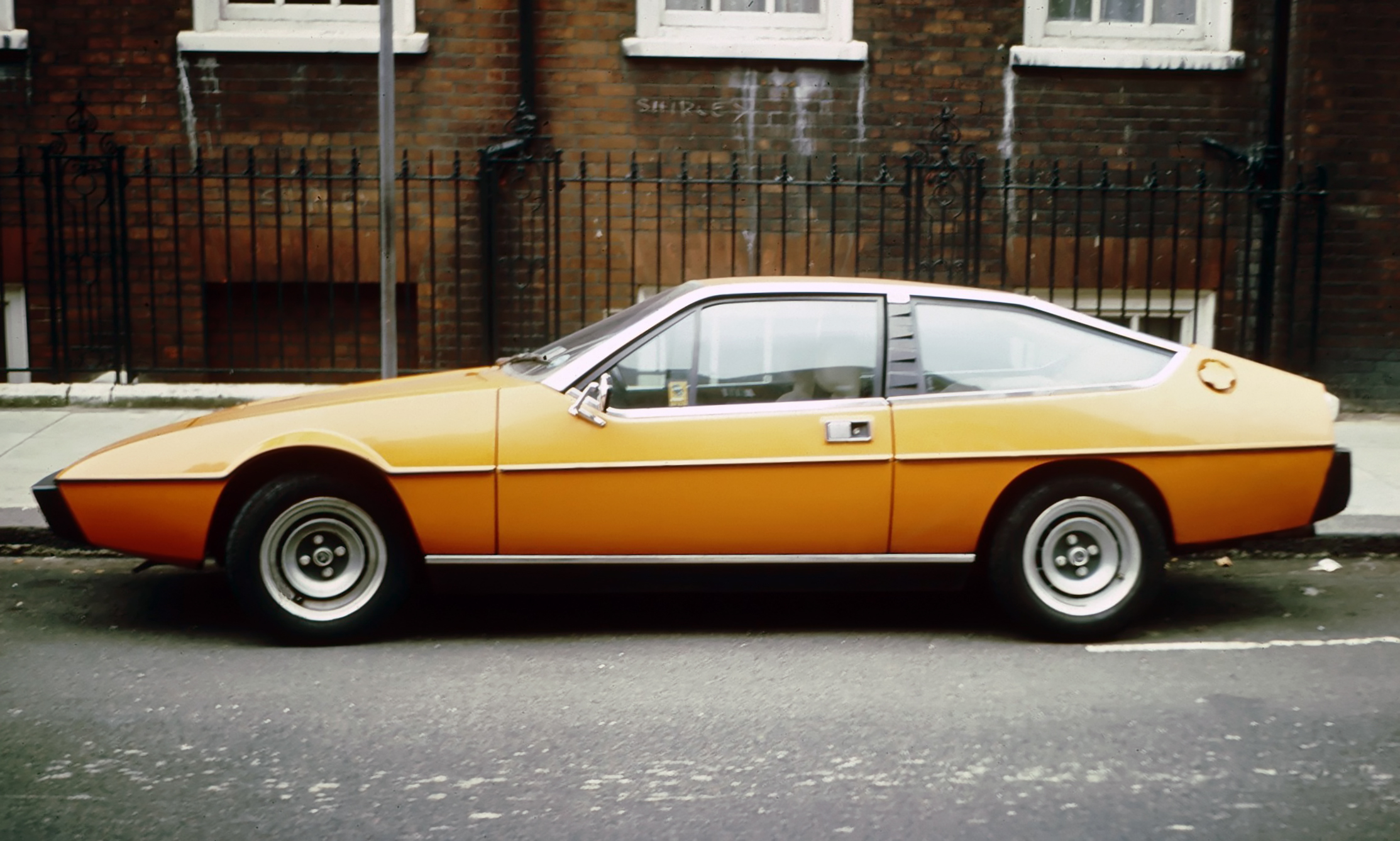 Lotus Eclat in profile